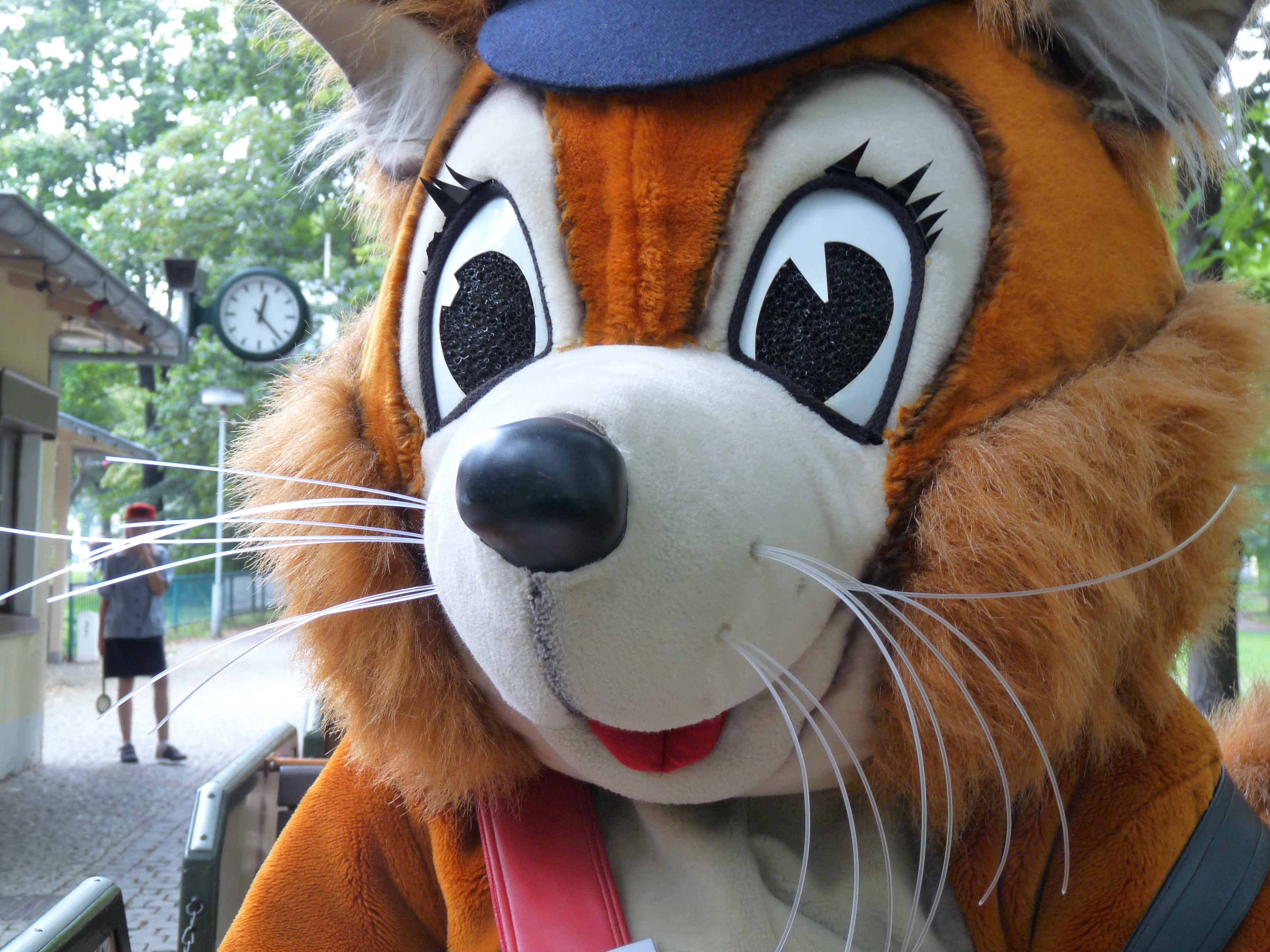 Parkolino, a squirrel and the mascot of the Dresden Park Railway